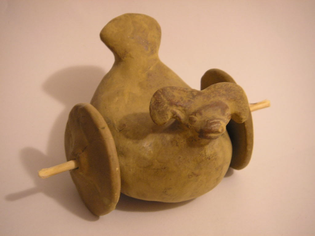 Children's toy from Mohenjo-daro. Located in the National Museum in New Delhi.